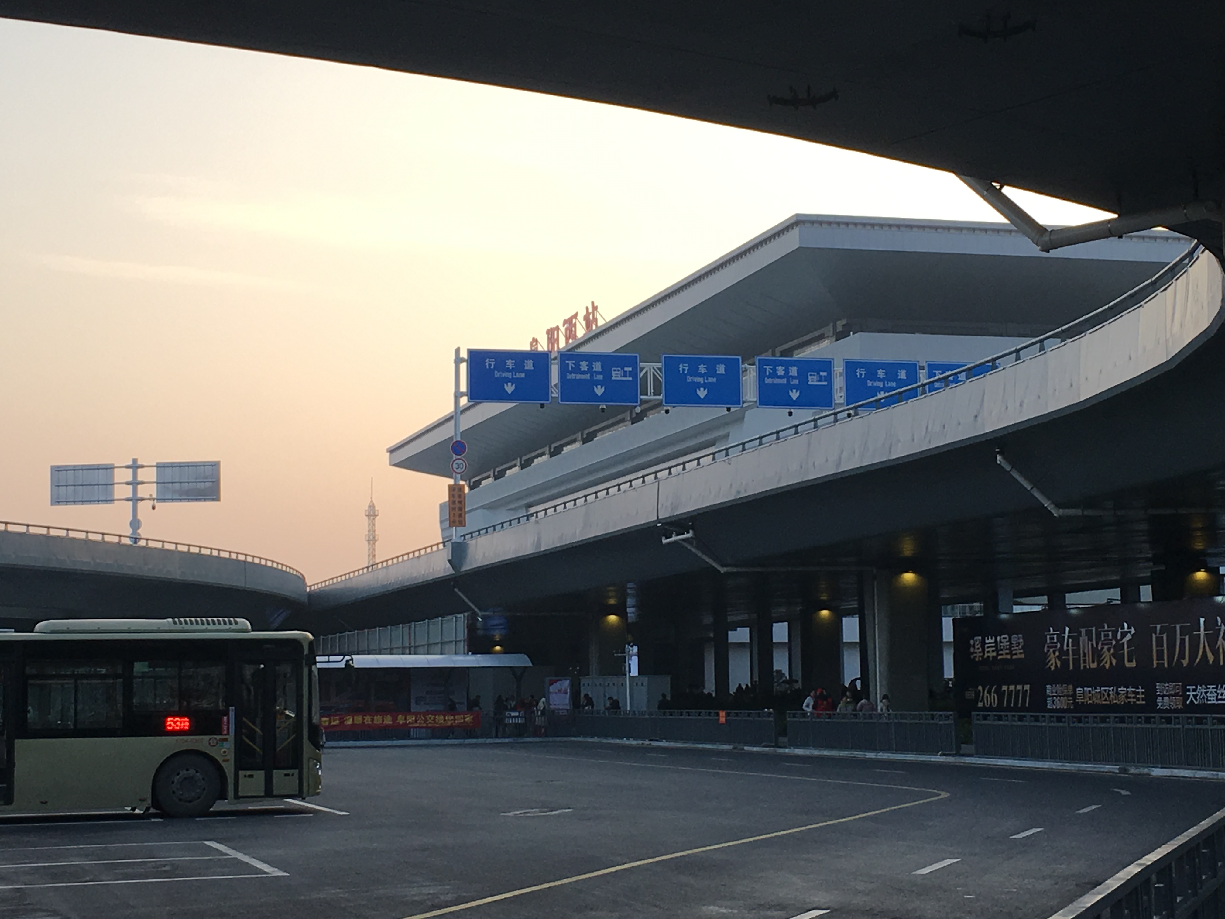 Fuyang High-speed Railway West Station In Sunset,Jan 19th,2020,Fuyang city,China.